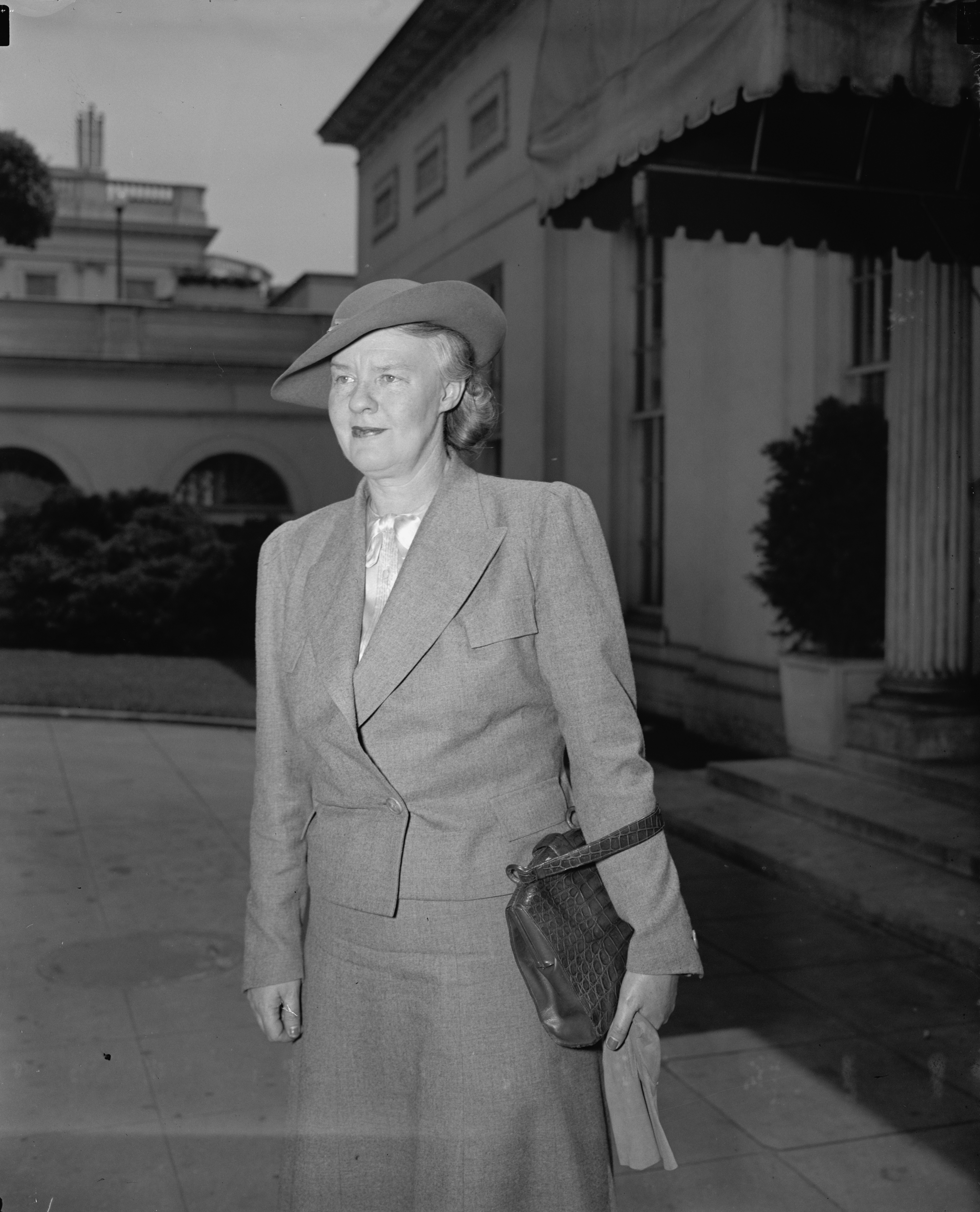 Title: Columnist calls on President Roosevelt. Washington, D.C., May 29. Dorothy Thompson, newspaper columnist who recently returned from Europe, called on President Roosevelt at the White House today Abstract/medium: 1 negative : glass ; 4 x 5 in. or smaller